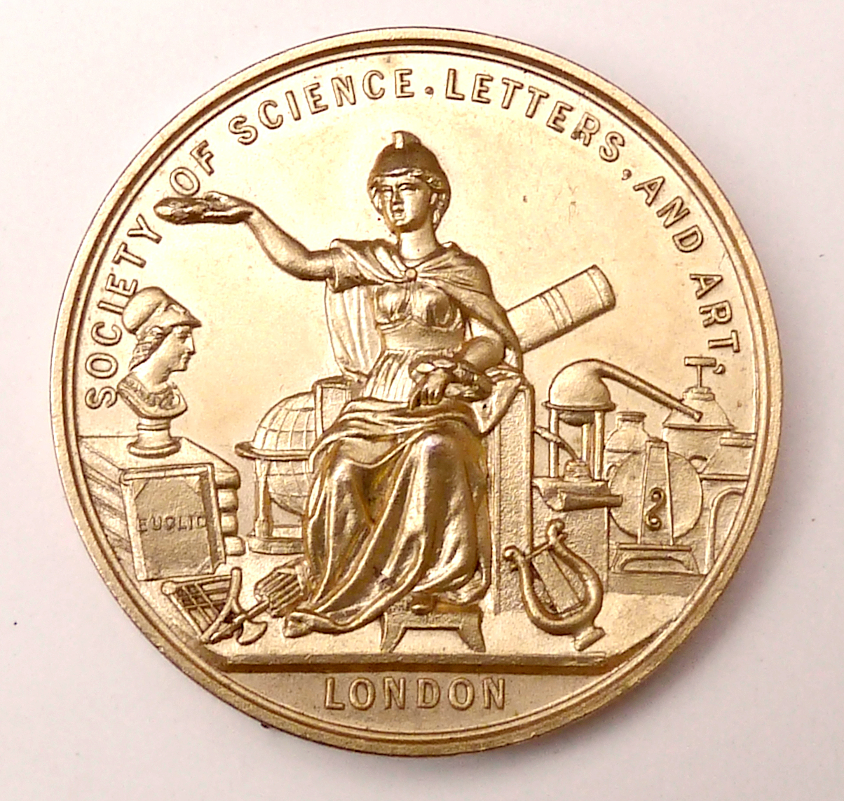 Front of gold-plated bronze medallion of 1885, presented by the Society of Science, Letters and Art to George Hawker. The medallion's artist is unknown. There is nothing written on the side of the medallion. Diameter 1.5in or 3.75cm.